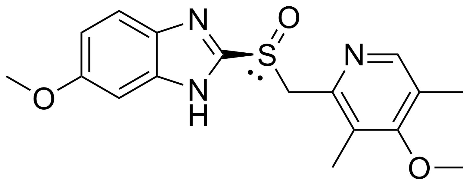 Chemical stucture of esomeprazole